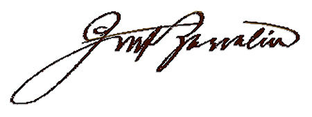 Signature of Graf Ferdinand von Zeppelin (1838-1917), the German airship pioneer.